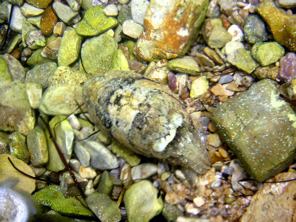 Camouflage of a Cuttlefish (Sepia), Corfu, Greece